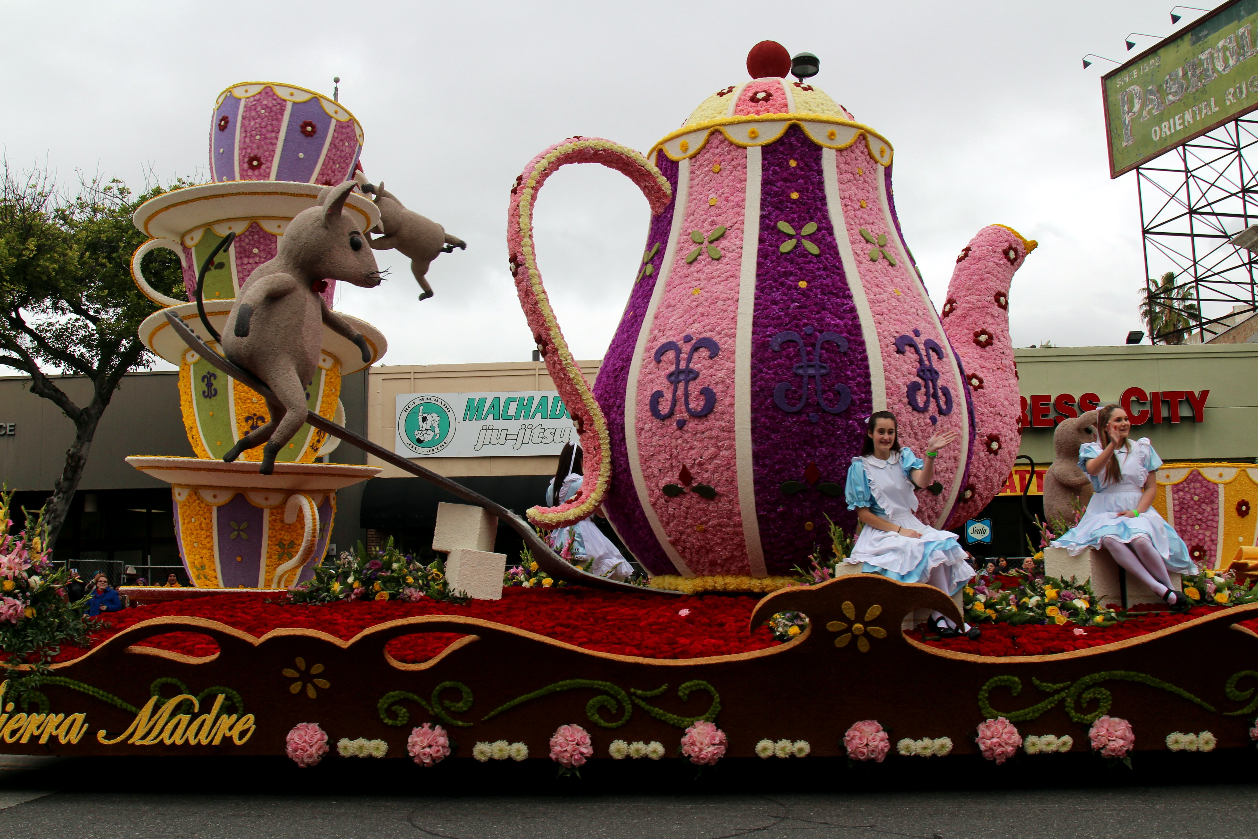 City of Sierra Madre For its 86th entry, this self-built float gets playful with the saying, ‘When the cat’s away, the mice will play.’ These little mice have completely taken over the tea set to enjoy its sweets including sugar cubes and baked goods. Rose Parade 2017 Pasadena, California